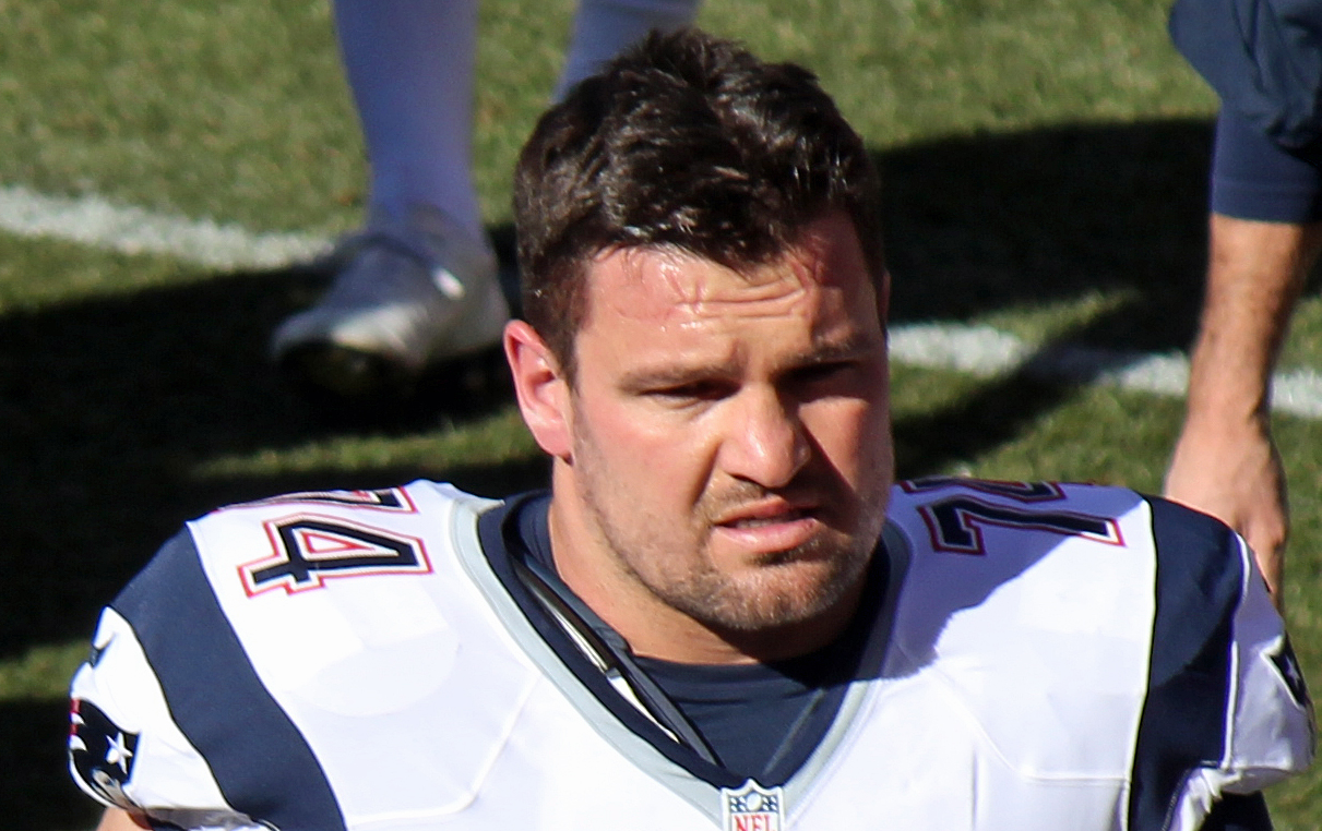 Will Svitek, a player on the National Football League.